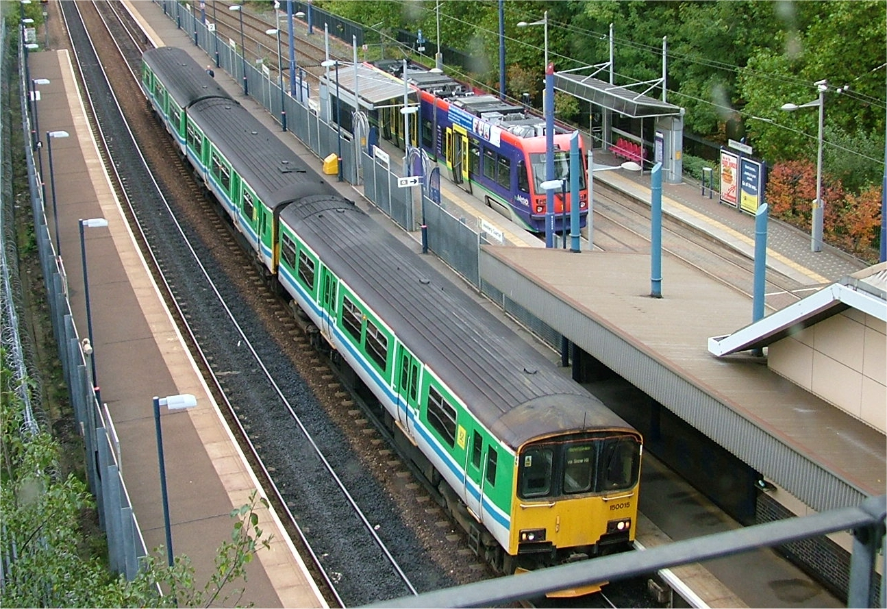 Jewellery Quarter railway station from the station building, showing a train and tram at their respective platforms - Birmingham